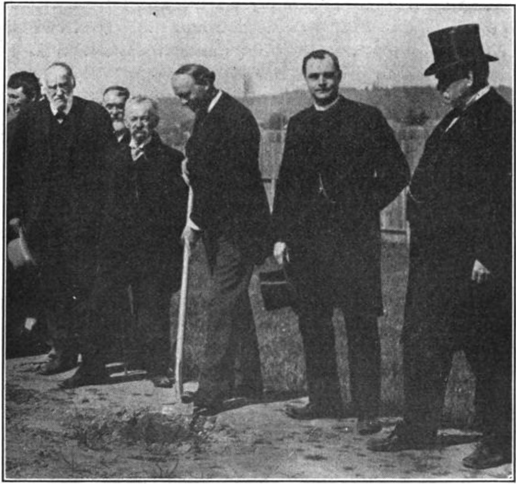 Groundbreaking for the Lewis & Clark Expo held in 1905 in Portland, Oregon. Original caption from book: JEFFERSON MYERS, PRESIDENT OF THE LEWIS AND CLARK CENTENNIAL EXPOSITION COMMISSION BREAKING GROUND FOR THE FIRST "WESTERN WORLD'S FAIR"